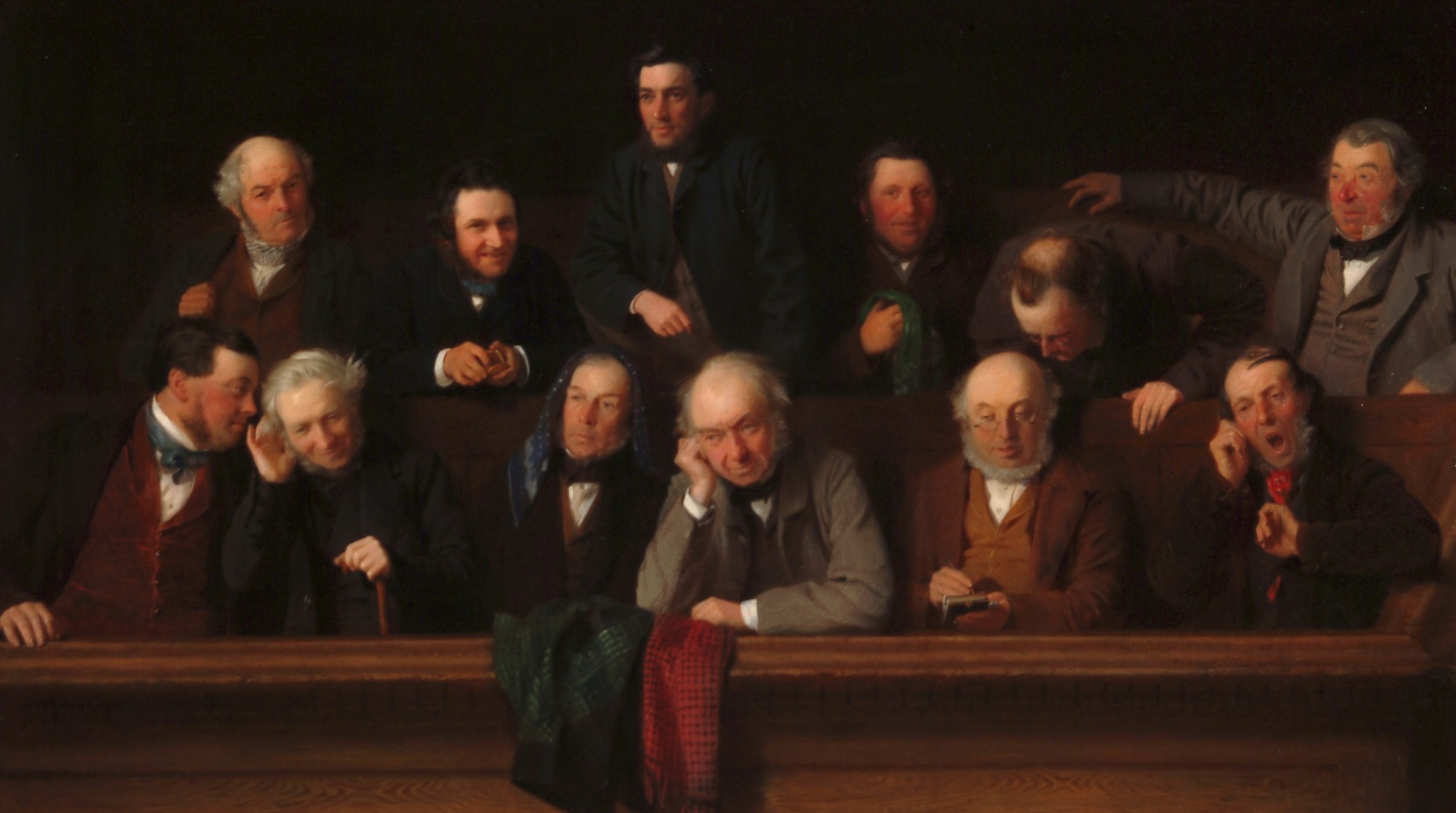 museum; (c) Buckinghamshire County Museum; Supplied by The Public Catalogue Foundation (see Source/Photographer below)